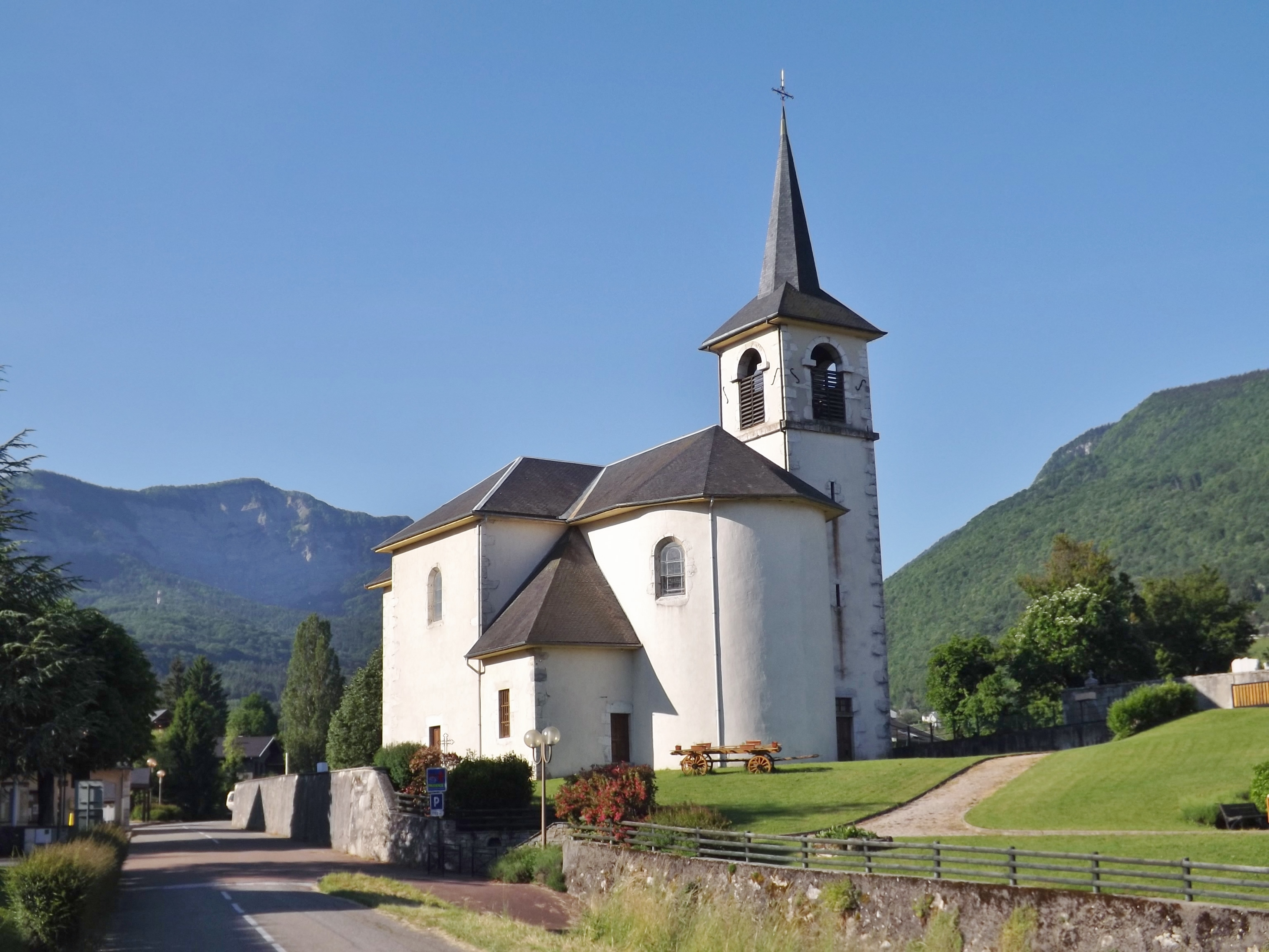 Sight of the church of Saint-Cassin village, on the heights of Chambéry, in Savoie, France.